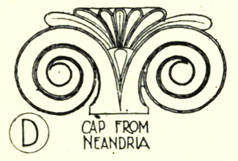 Aeolic capital from Neandria, from "A history of architecture on the comparative method"